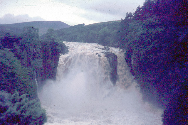 High Force after a storm. Compare this with the other pictures of High Force